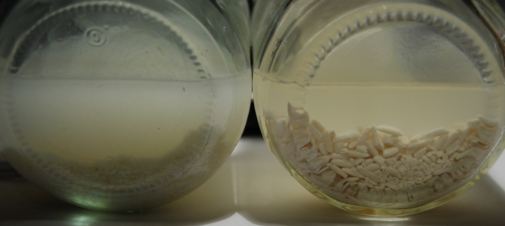 (Strictly non-scientific, but inviting-to-imitation) Home experiment of Masaru Emoto’s claim. It’s rice in tab water in preserving jars. Rice, water and jars were each of the same type. The content of the left jar was insulted, the content of the right jar was complimented. The picture show the result after approx. one week. The jars were sealed and stored under equivalent cirqumstances. (The German file name translates “rice water attempt”.)